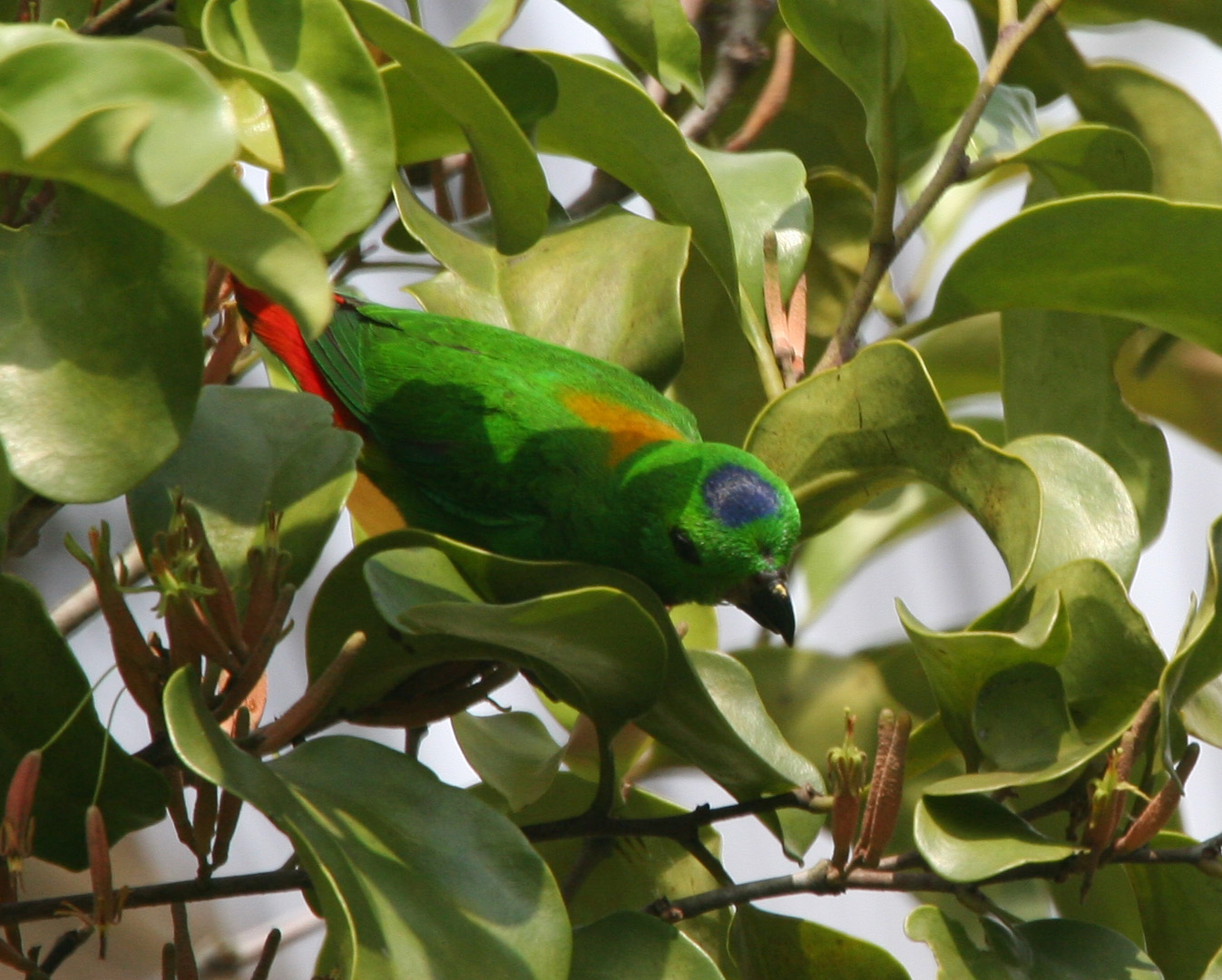 Blue-crowned Hanging Parrot (Loriculus galgulus). Male in a garden, Merryn Road, Singapore. It is feeding on a fruiting fig plant growing on the Coffee tree. Later Parks & Recreations came and chopped off the branches with the figs during a pruning exercise and the family stopped dropping by for a meal. Canon 20D, 100 - 400mm with 2x extender Alt. Names: Blue crowned Hanging Parrot, Blue-crowned Hanging Parrot, Blue-crowned Hanging-Parrot, Blue-topped Hanging-parrot, Malay Hanging Parrot, Malay Lorikeet, Malaysian Hanging-Parrot Malay: BayanKecil/Serindit, Serindit Indonesian: Serindit Malayu Distribution